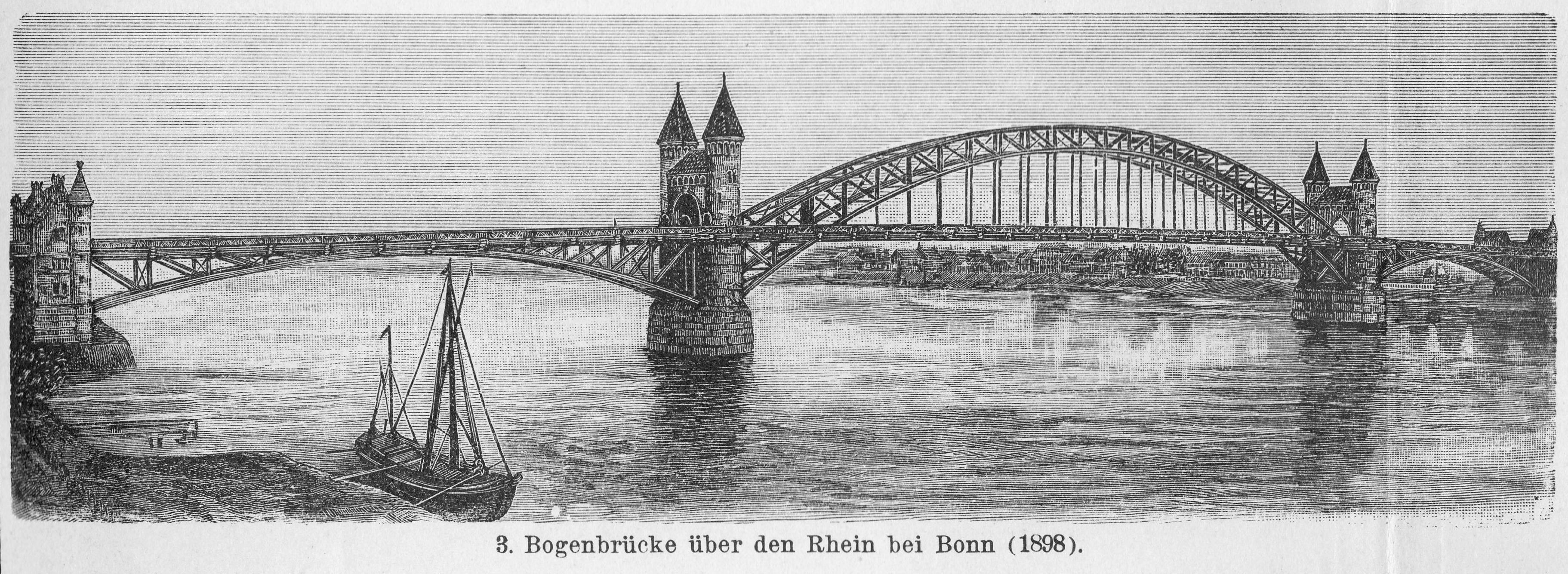 The old bridge over the Rhine in Bonn, Bonn, Germany, Engraving